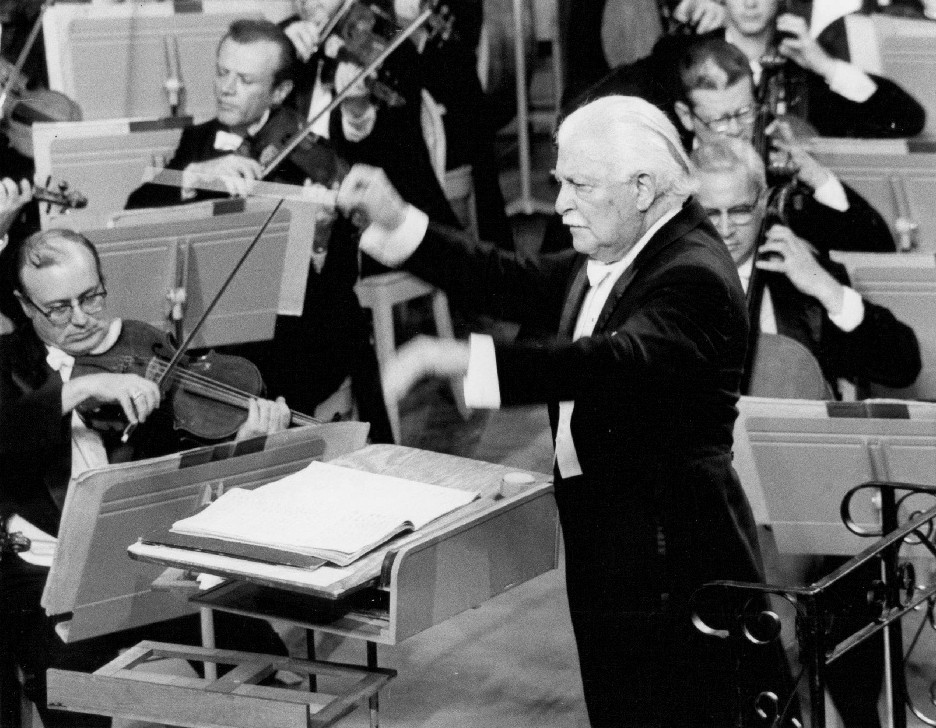 Photo of Arthur Fiedler conducting the Boston Pops. Fiedler and the orchestra were guests on The Red Skelton Show.